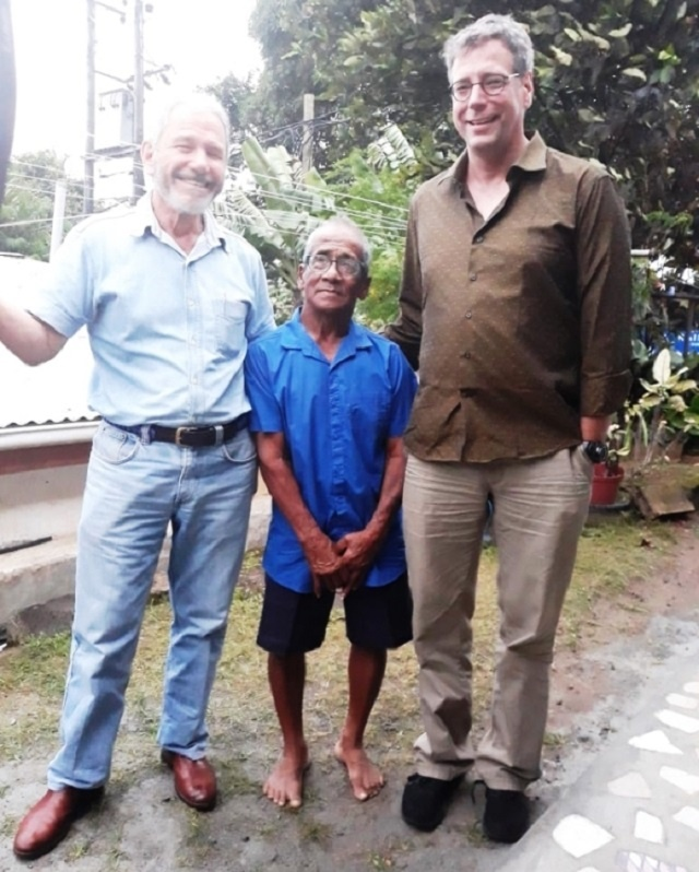 American author Michael Scott Moore (right) with, Rolly Tambara, a fisherman, and Derek Seton, a pilot, at a reunion in Seychelles in 2018. Moore and Tambara had been held hostage by Somali pirates between 2011 and 2014.